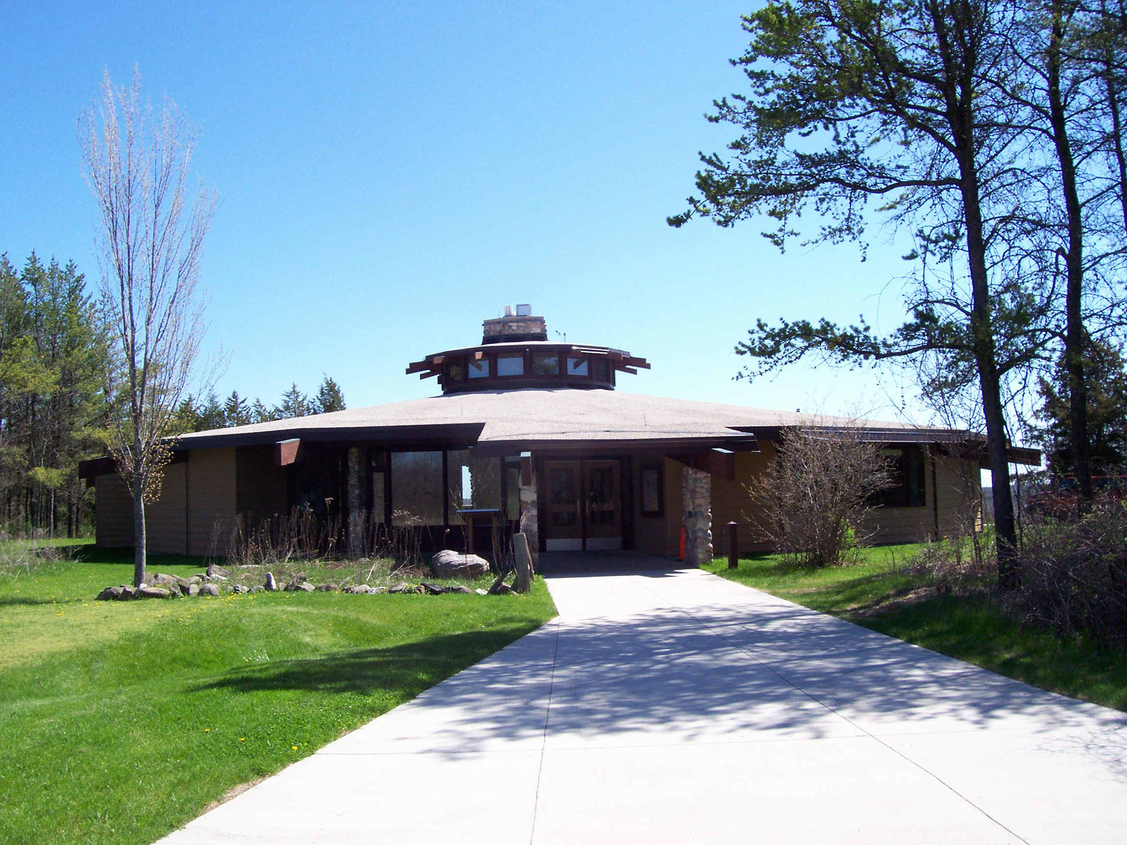 Henry S. Reuss Ice Age Visitor Center, the headquarters of the northern unit of the Kettle Moraine State Forest near Dundee, Wisconsin.